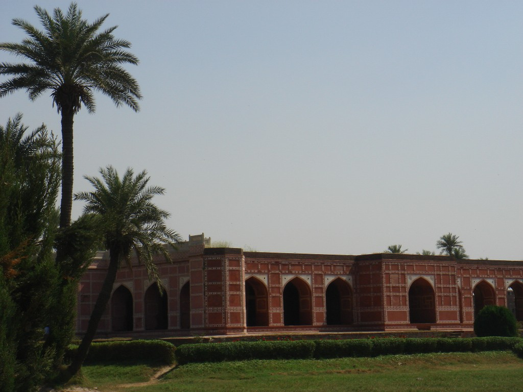 Tomb of Nur Jahan in Lahore, Punjab.